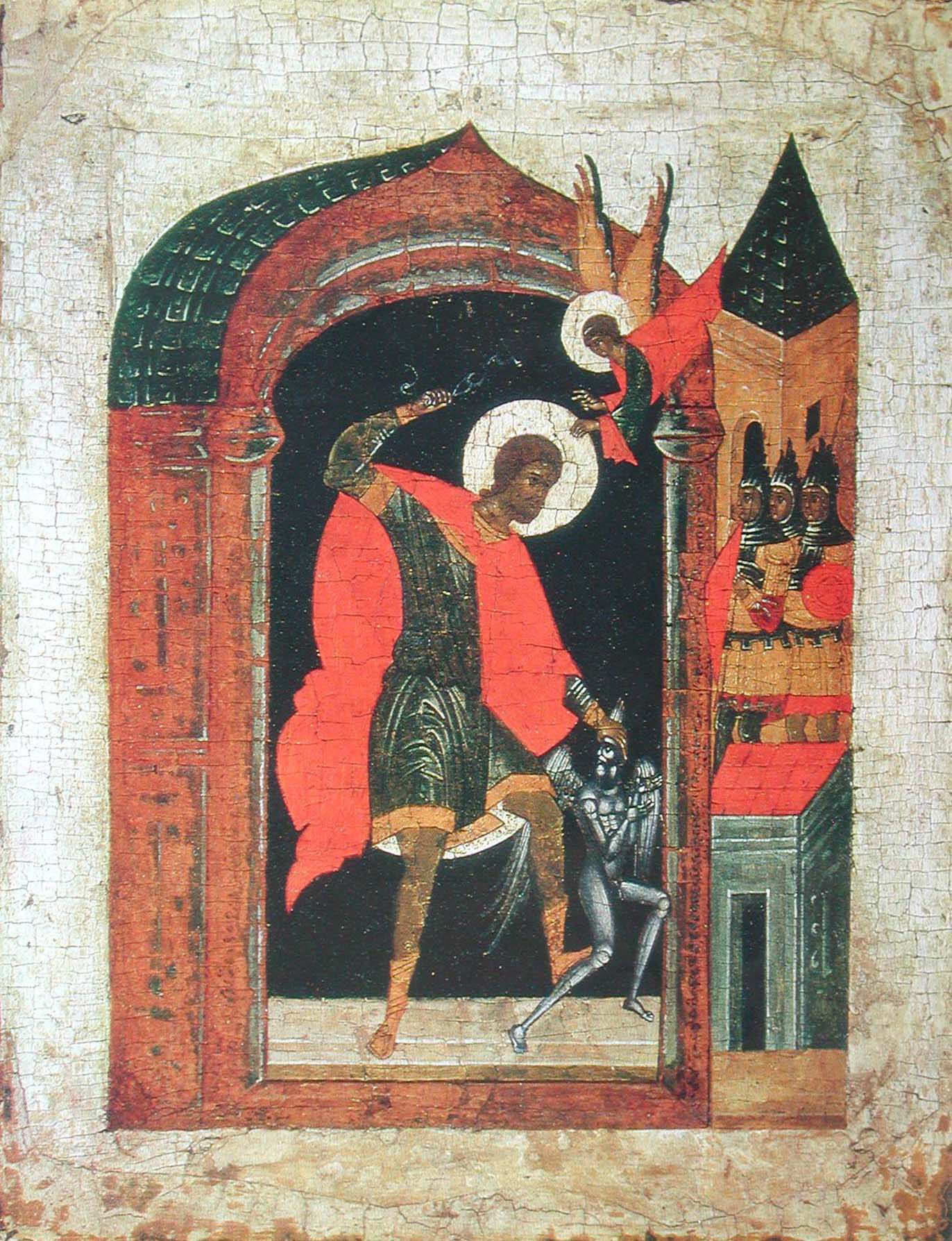 Nikita Besogon